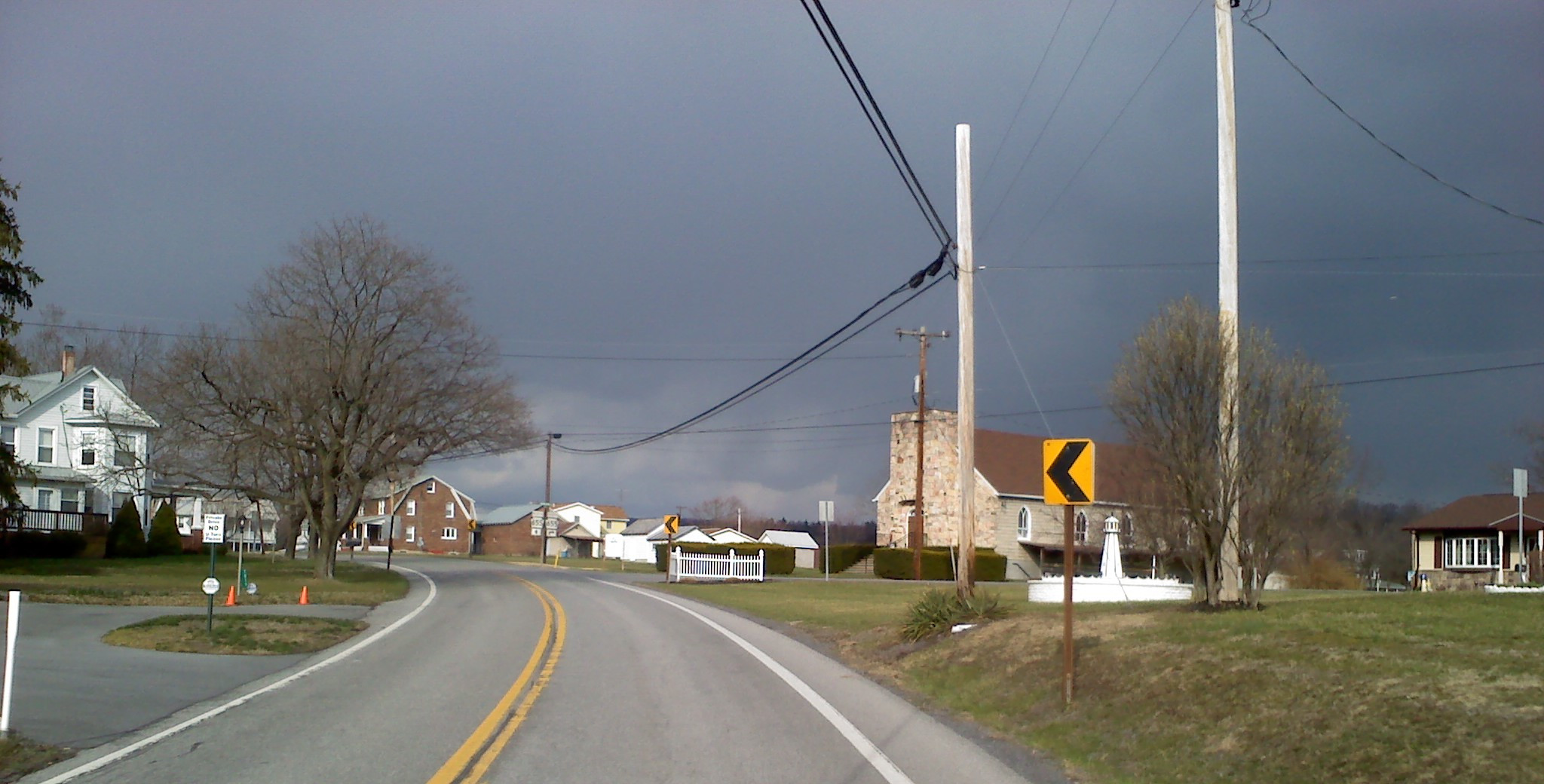 Needmore, Pennsylvania from U.S. Route 522. April 2, 2011.